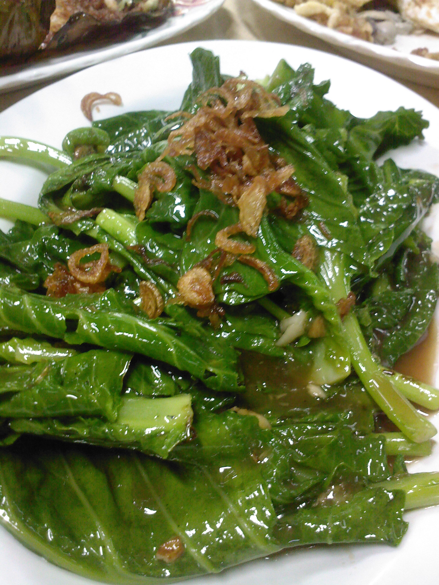 Baby Kai Lan